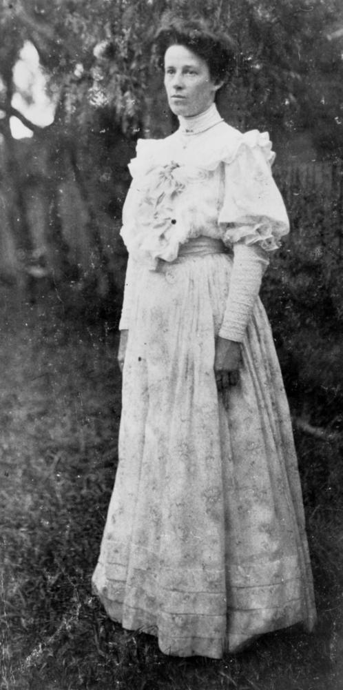 Artist Vida Lahey, ca. 1924 Vida Lahey was born at Pimpama in 1882 and died in Brisbane in 1968. She studied painting in Europe and later taught privately in Brisbane. She assisted with establishing the Queensland Art Fund where her activities included librarianship in the newly established art library. She taught children's art classes and later Saturday classes for children at the Queensland Art Gallery (QAG) after 1941. Vida's Monday Morning (ca. 1912) one of the few paintings depicting the duties of women, was donated by Mme F. Cougeau to the QAG soon after it was painted. It still hangs there today. Vida was acclaimed for her role as visual artist, for her energy in promoting art for all and for considering the child artist. (Description supplied with photograph).